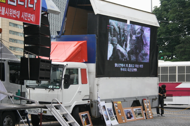 노노데모 집회